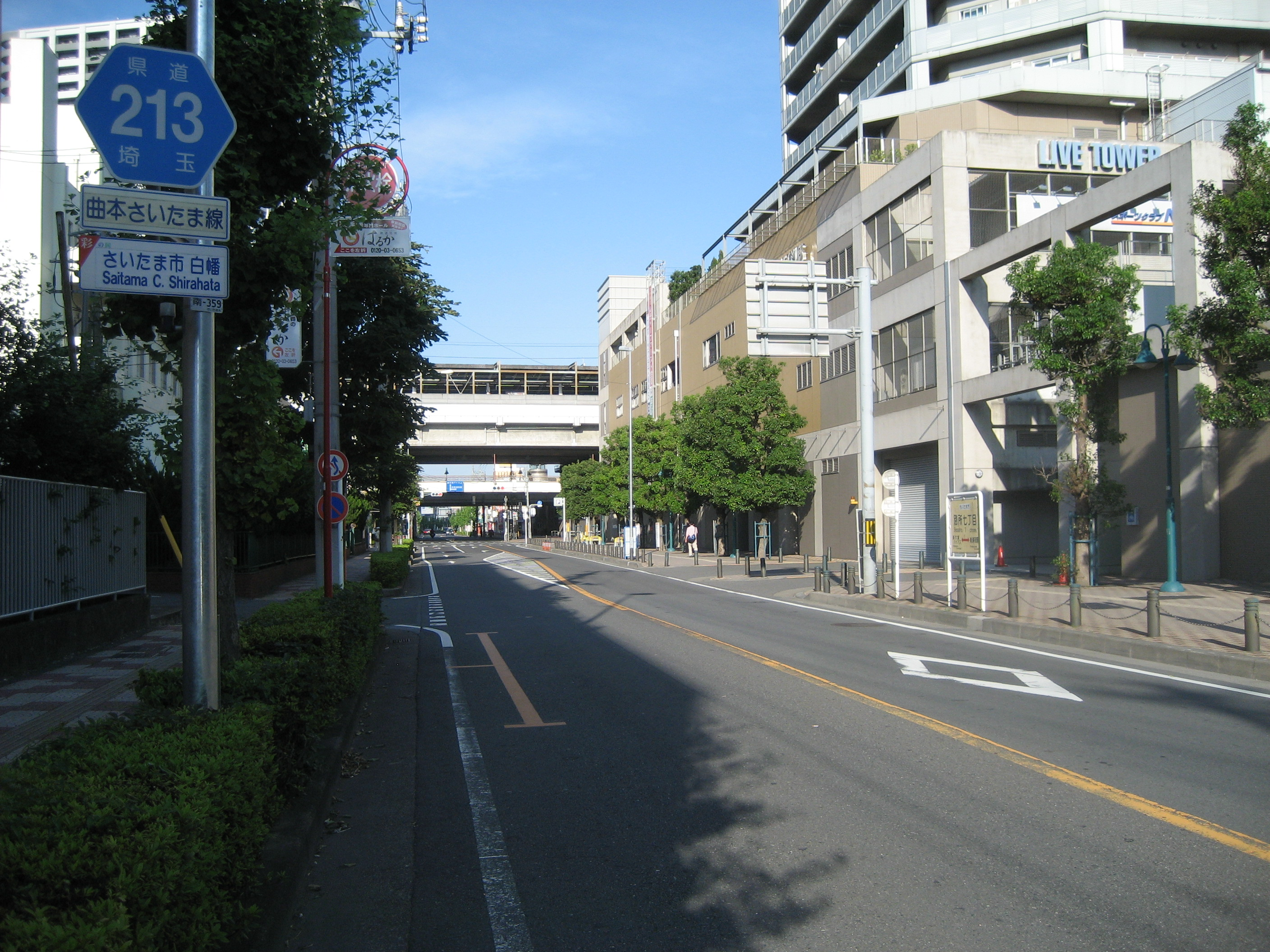 The Saitama Prefectural Road Route 213 near Musashi-Urawa Station in Shirahata, Minami-ku, Saitama City